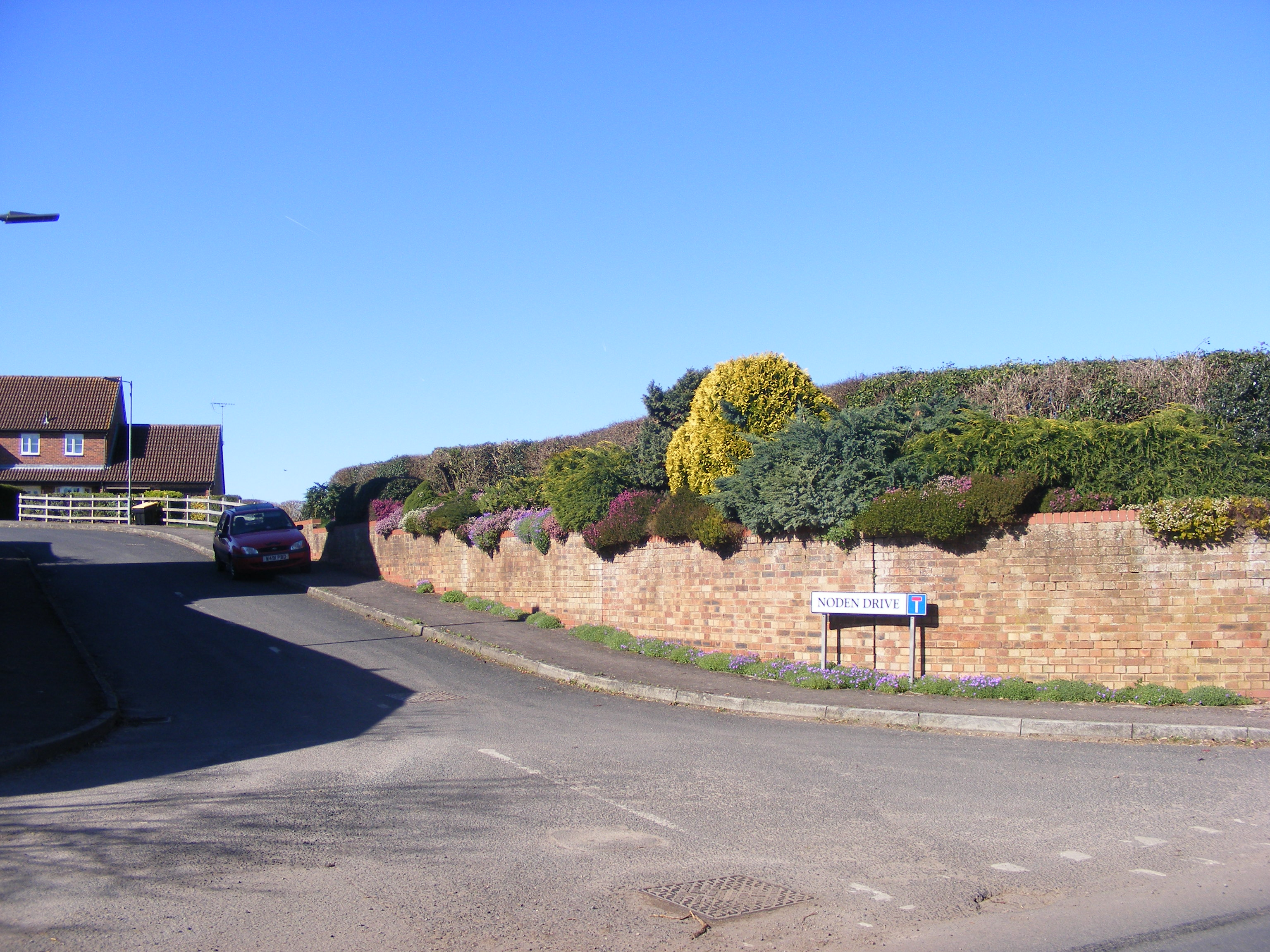 Noden Drive in the village of Lea in Herefordshire, United Kingdom was built on the site of the former Mitcheldean Road railway station which closed in 1964. It is named after Mr. Reginald Noden who was Station Master from the 1940s until the station's closure.